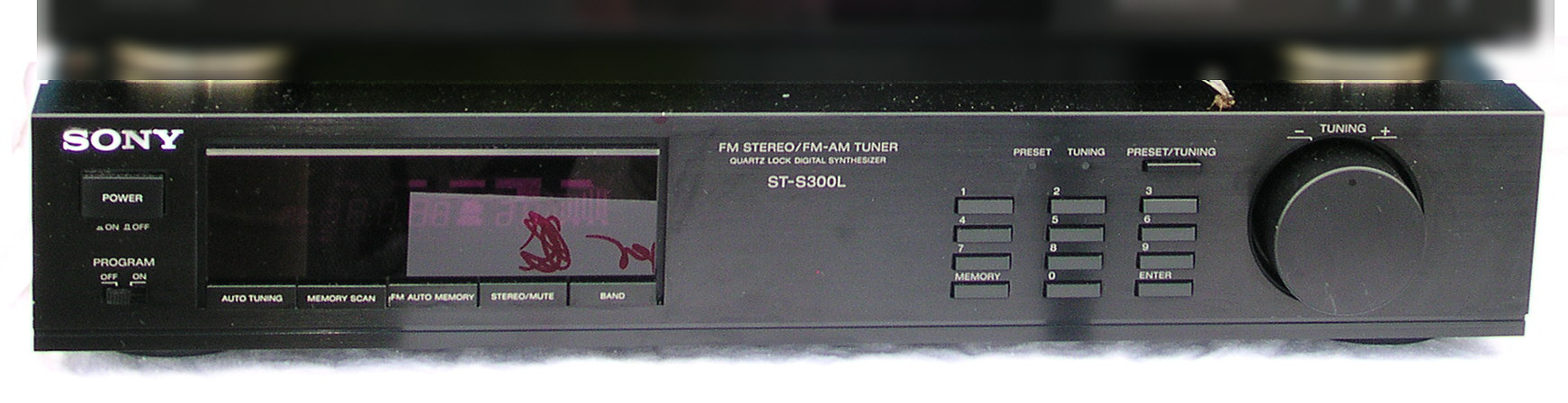 Sony ST-S300L tuner